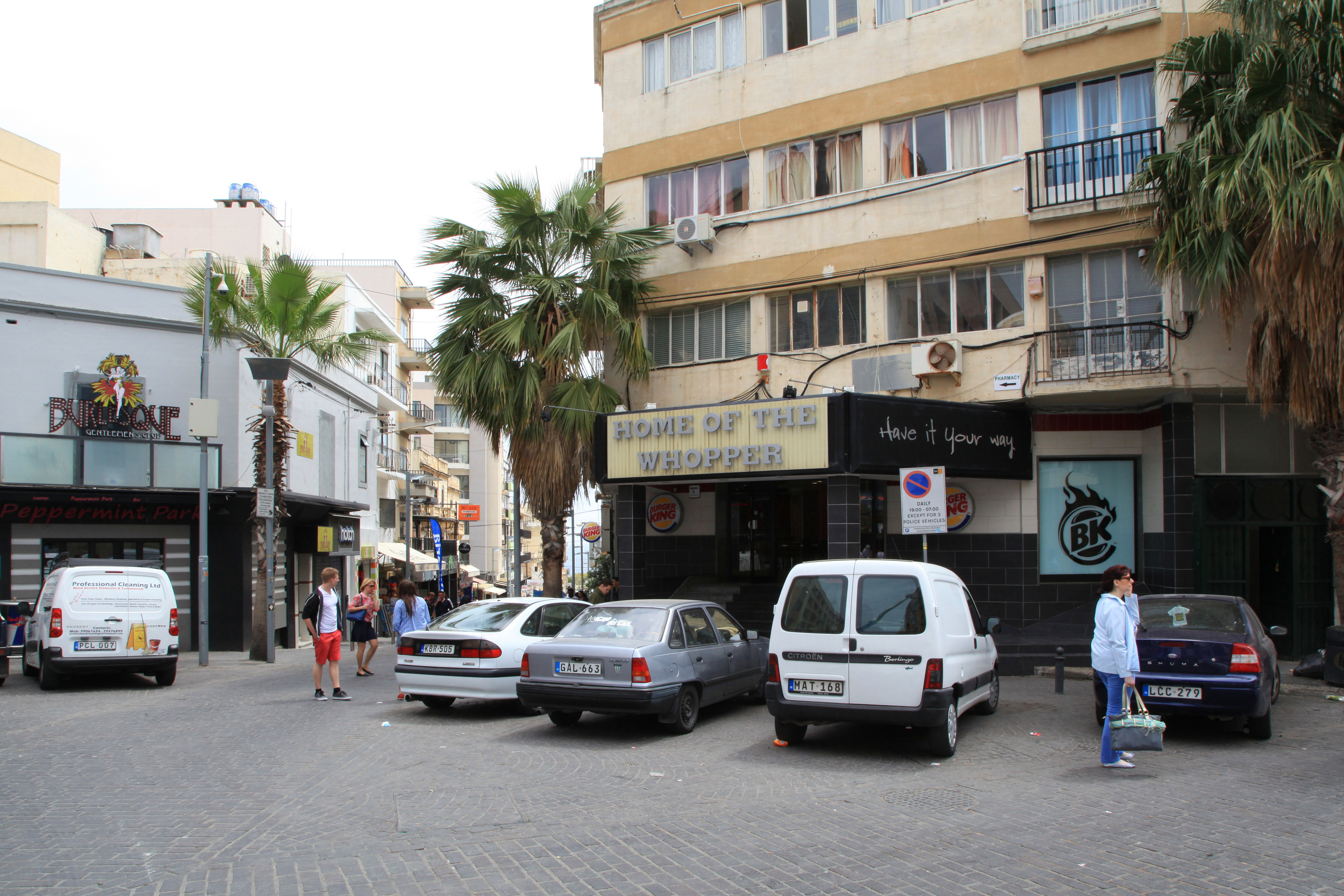 Paceville Piazza at Triq il-Wilga in St. Julian's, Malta